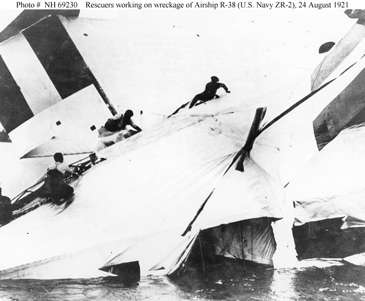 Crash of British airship R-38 (U.S. Navy ZR-2), 24 August 1921. Rescue party cutting into the fabric hull covering, near the tail, in an effort to save airmen trapped in the wreckage, "scarcely one-half hour" after the airship broke up, exploded and crashed into the Humber River at Hull, England.